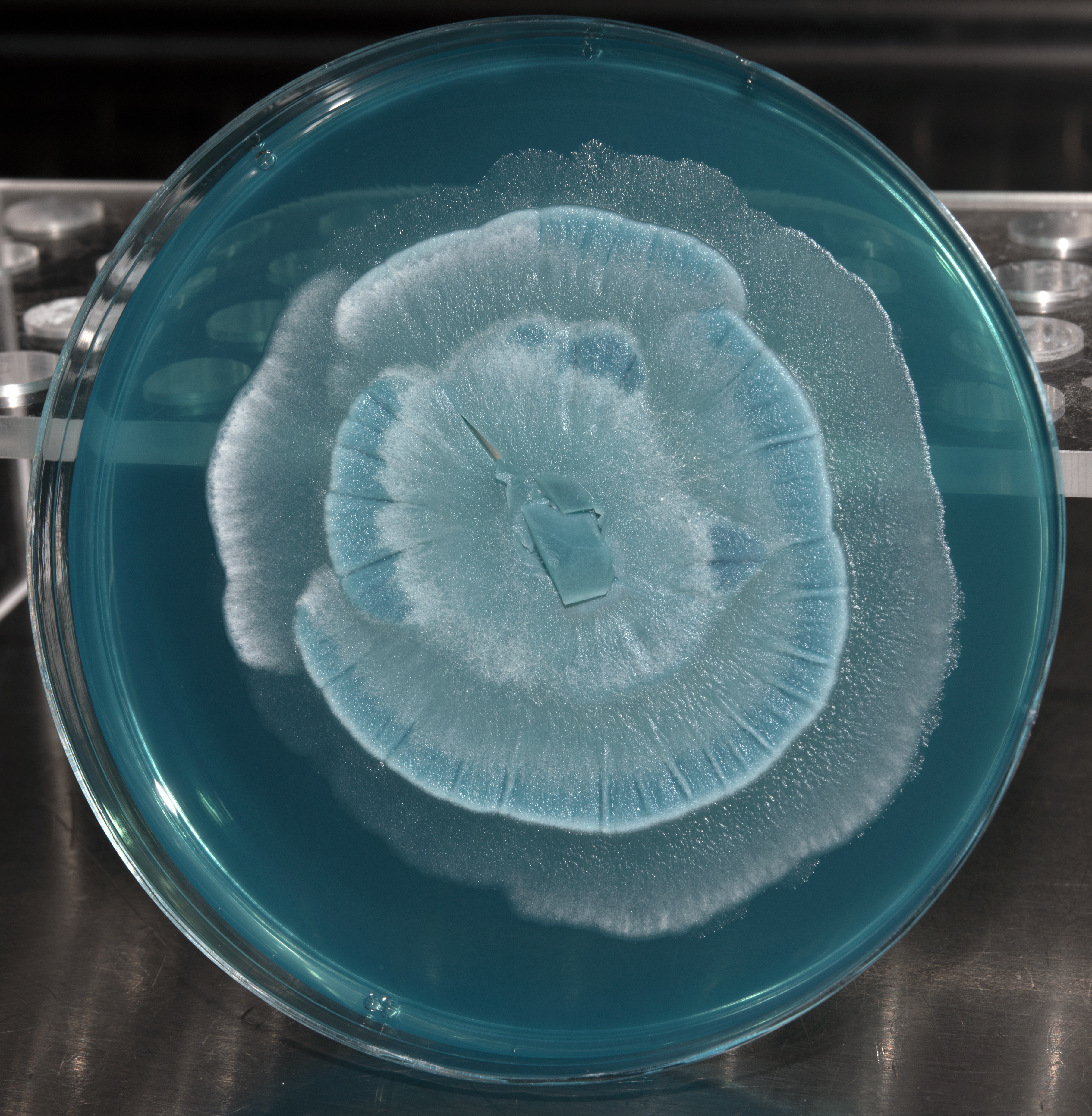 Mortierella species from Yosemite, cultured from Morchella snyderi and identified by sequencing the ITS gene.